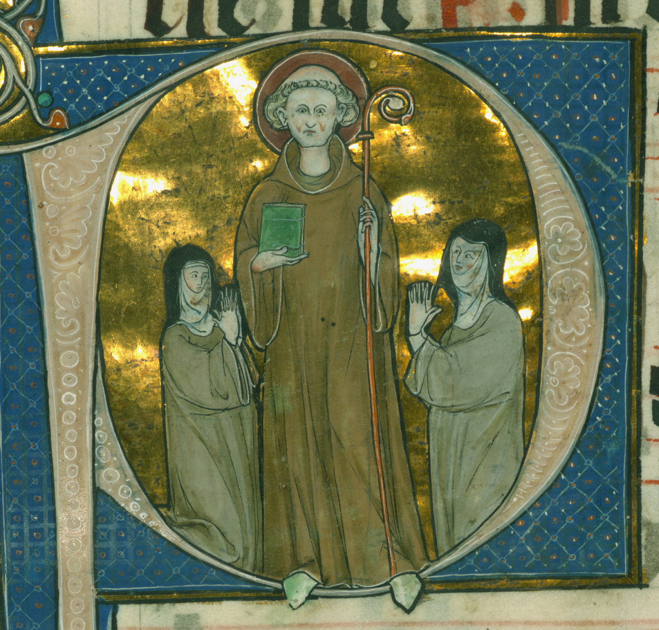 13th century illuminated picture of Bernard of Clairvaux